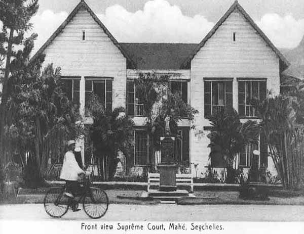 Front view of the Supreme Court of Seychelles (now hosting the Seychelles History Museum)